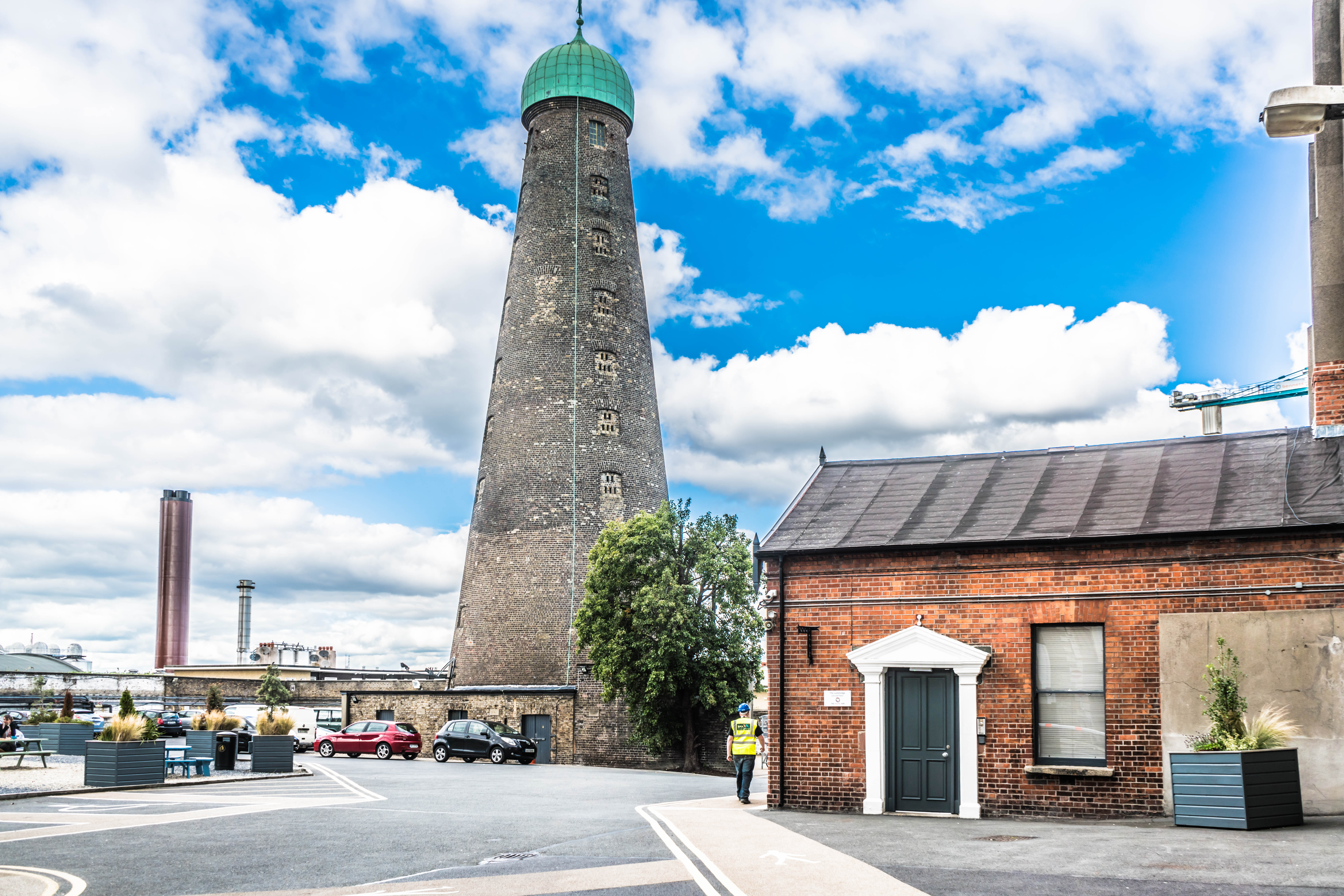 The Grainstore building at the Digital Hub in Dublin, Ireland.